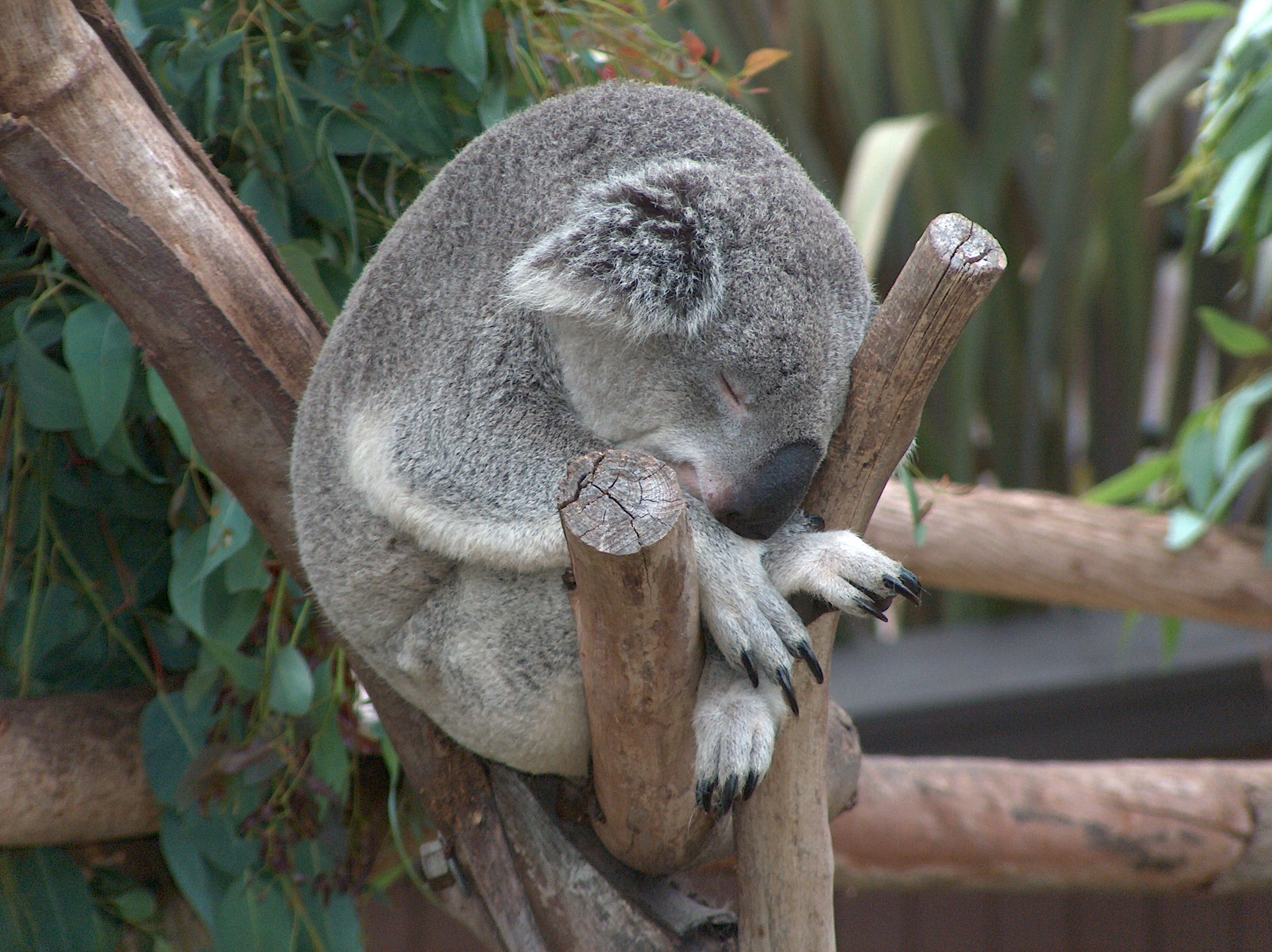 Koala at the San Diego zoo. Photo taken by User:Mike R on 8 August, 2005.